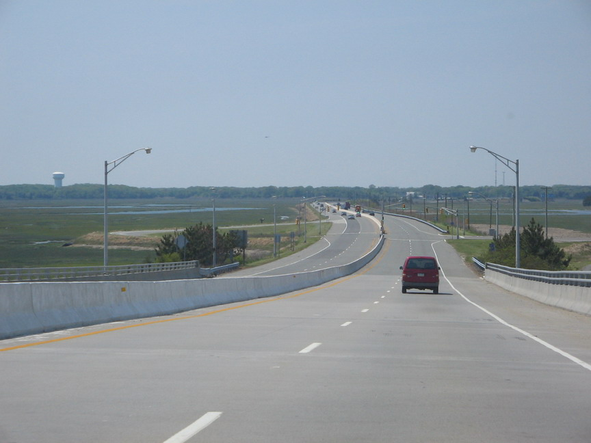 Route 147 Westbound